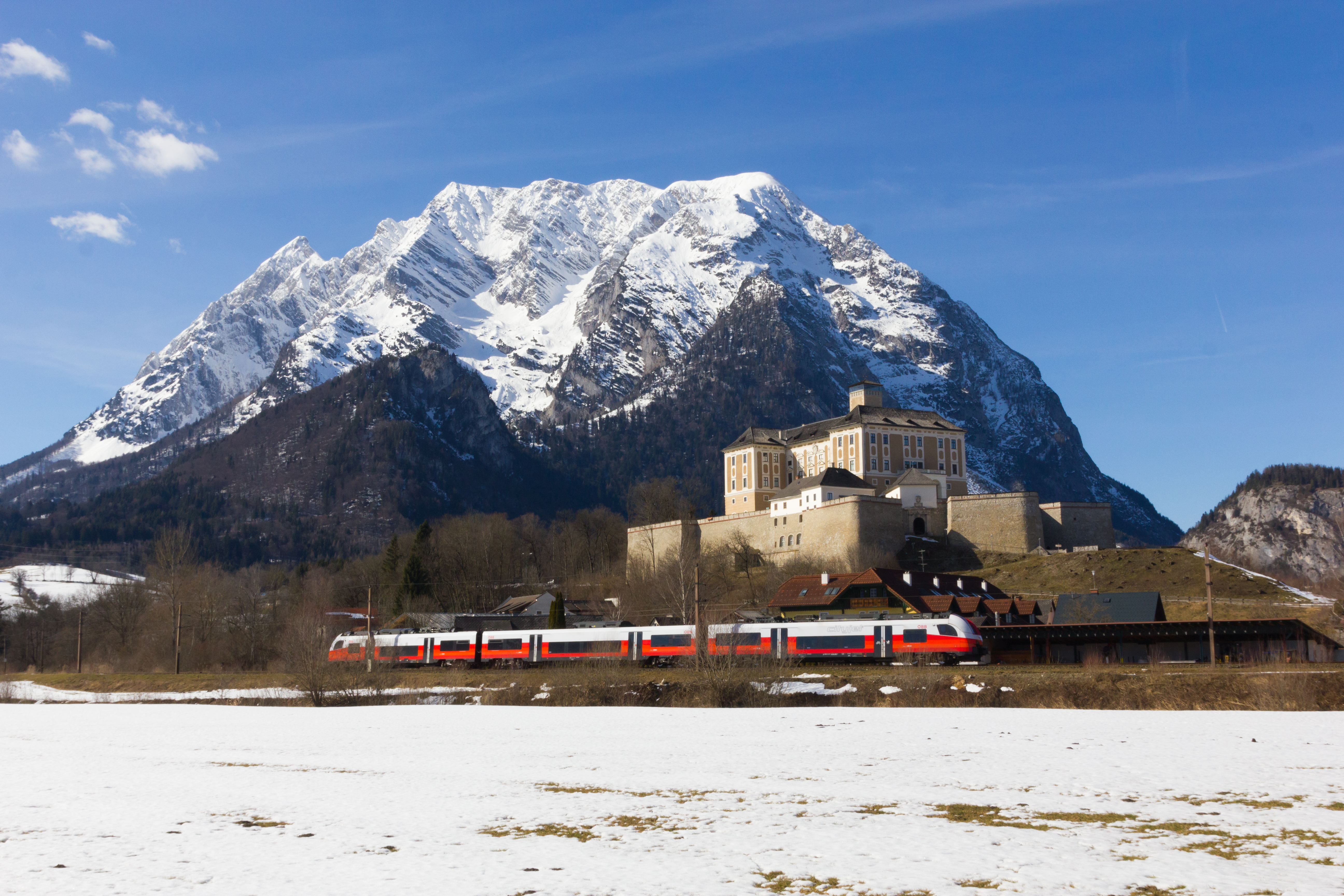 ÖBB Cityjet passes Trautenfels Castle.